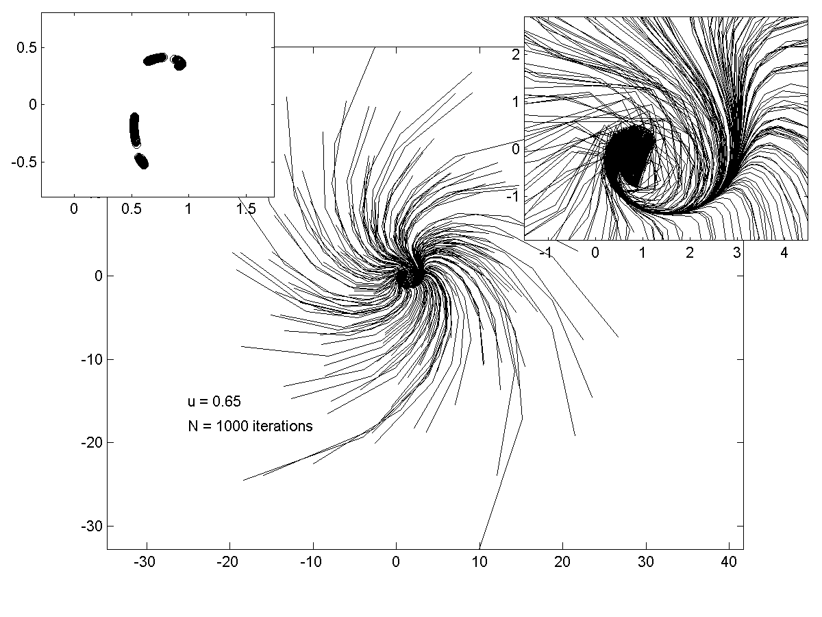 Ikeda trajectory plot made using MATLAB